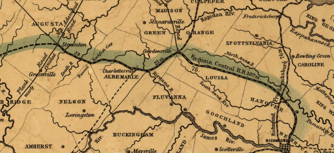 An 1852 map showing the constructed portions of the Virginia Central Railroad. Cropped from original map.